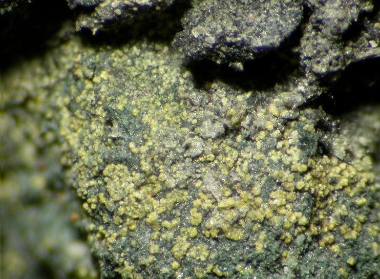 Lipscombite Locality: Lichtenberg Absetzer Mine (dump), Ronneburg U deposit, Gera, Thuringia, Germany Yellowish-green xls of Lipscombite (analysed). Field of view 5 mm. Specimen and photo Leon Hupperichs.